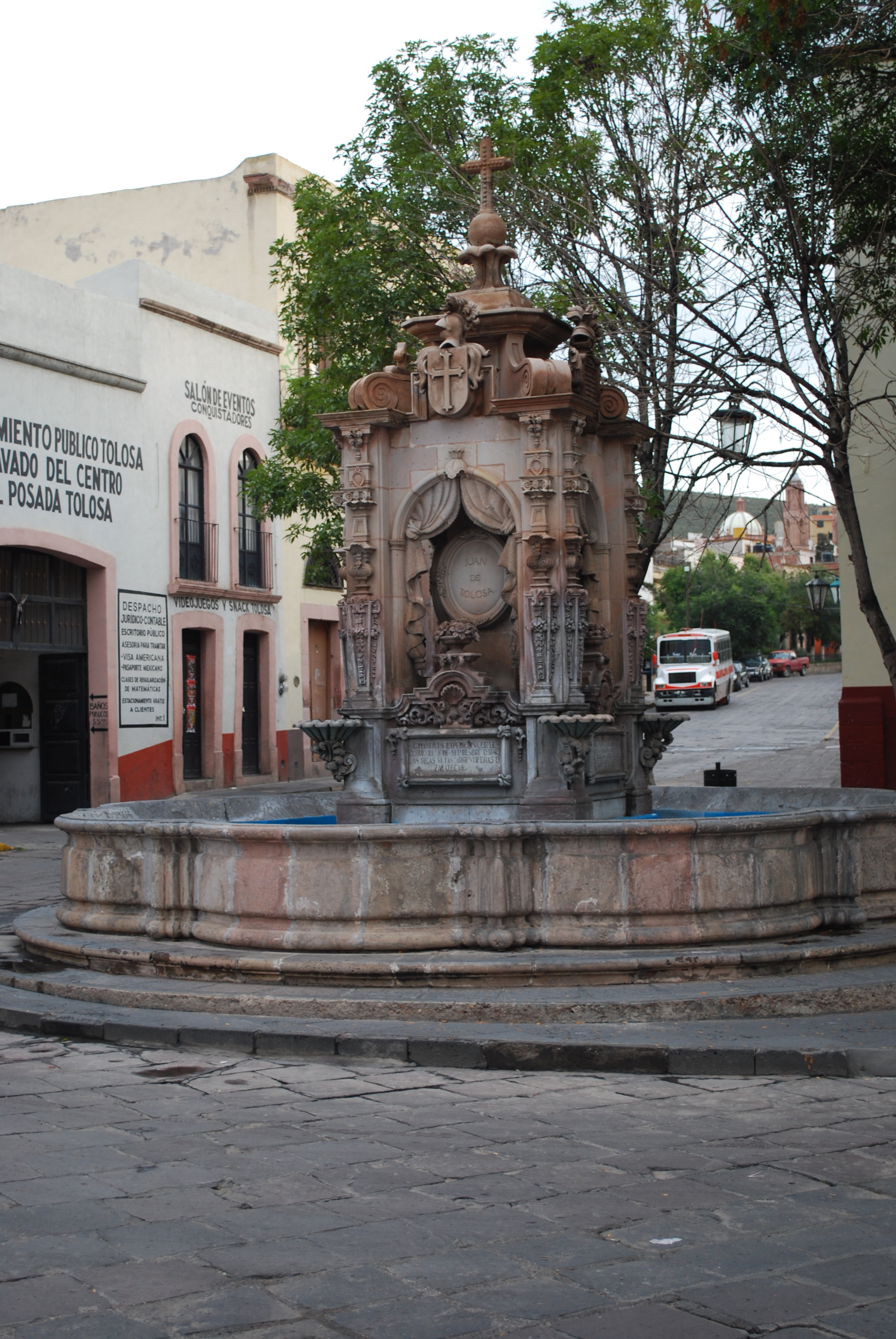 Monument to Juan de Tolosa/Fuente de los Conquistadores in the city of Zacatecas, Mexico